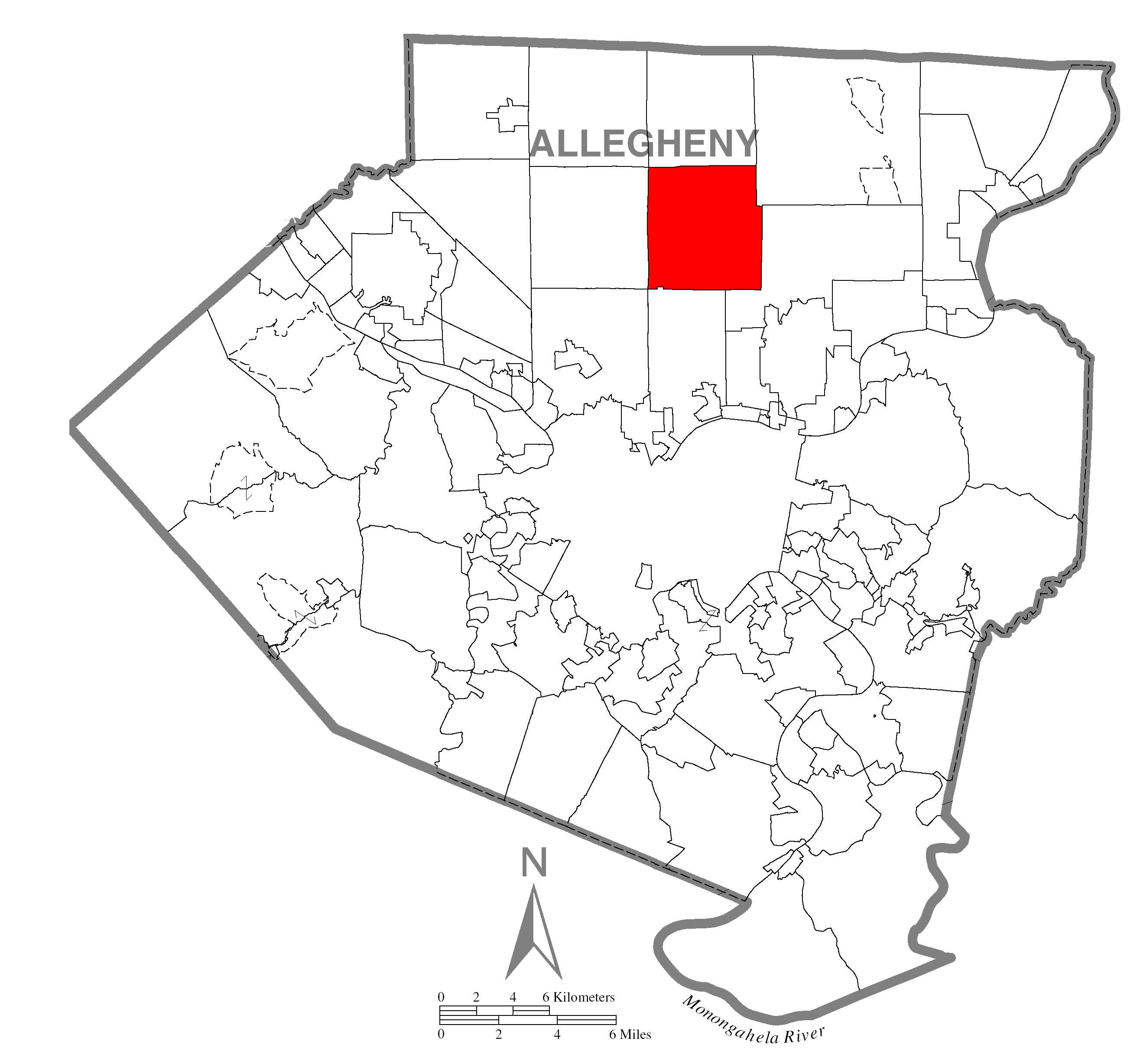 A map of Allegheny County showing Hampton Township, Pennsylvania (alternate) highlighted on the map.